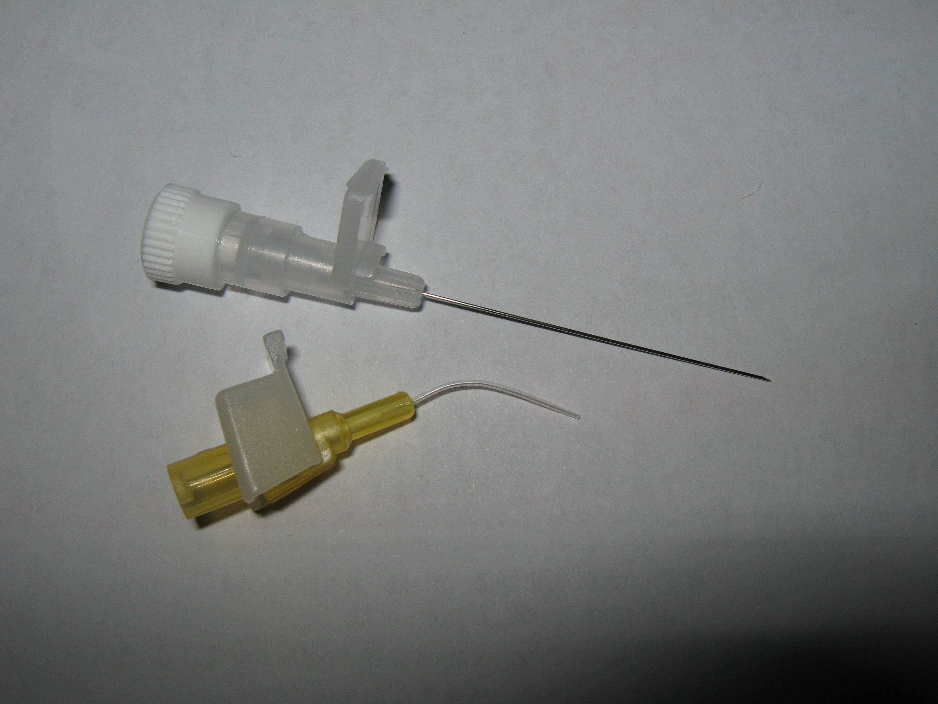 IV Canule